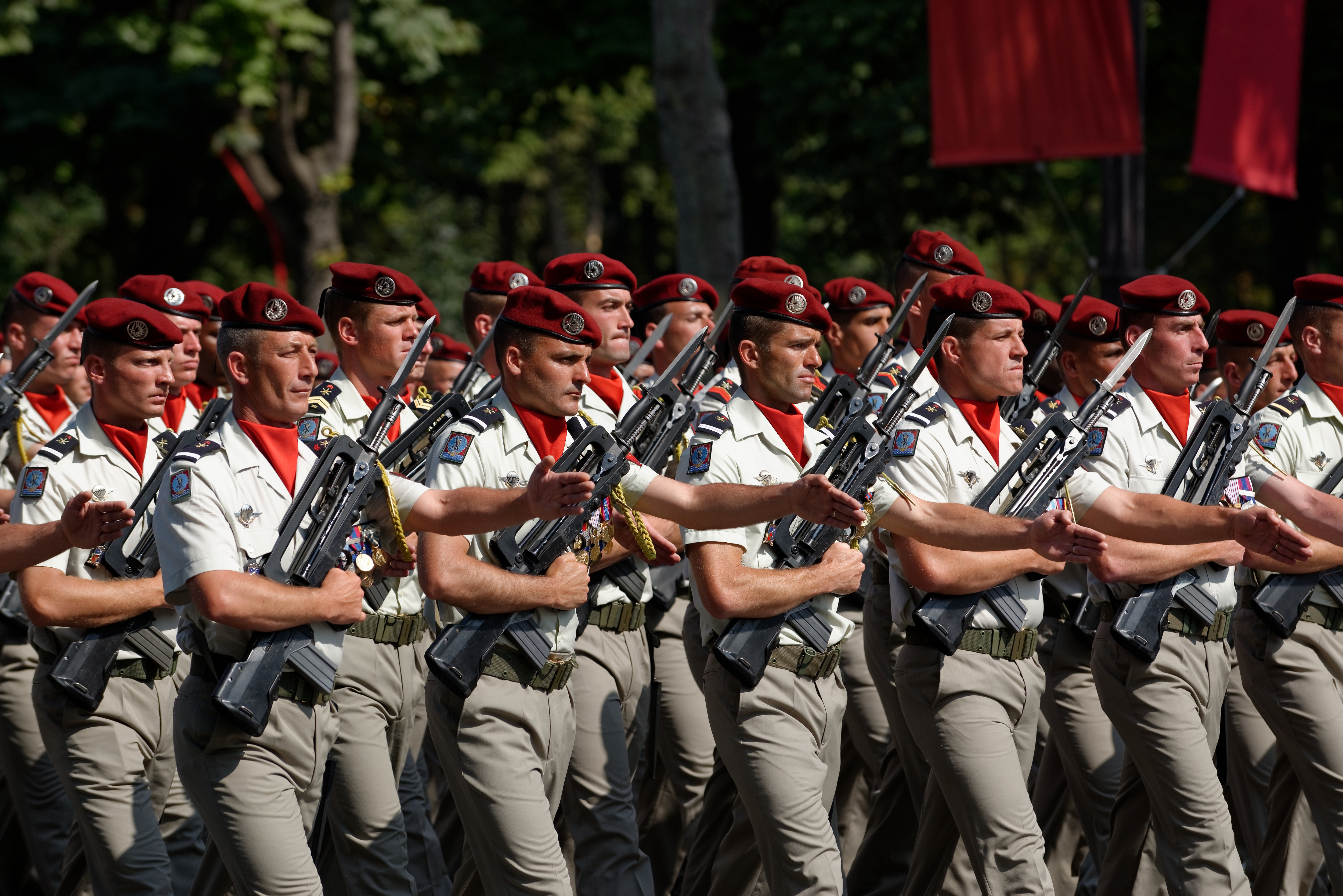 35th Parachute Artillery Regiment in the Bastille Day 2013 military parade on the Champs-Élysées in Paris.